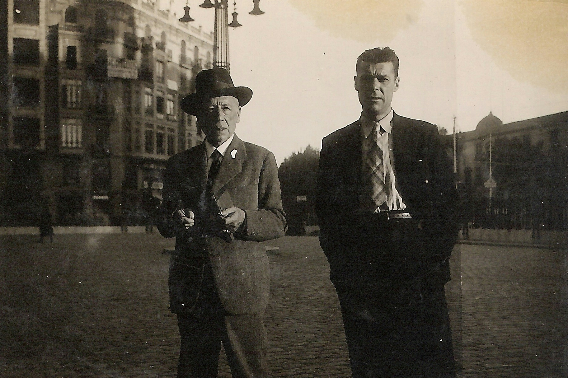 José García Vaso with his son Carlos Vaso (1906-1991), "Carlitos". The first was a lawyer, journalist and politician who served as deputy in Cortes and mayor of Cartagena during the reign of Alfonso XIII, while the second was a footballer and played for teams such as Cartagena FC, Real Murcia, Hércules de Alicante, Real Madrid and Real Valladolid during the 1920s and 1930s.